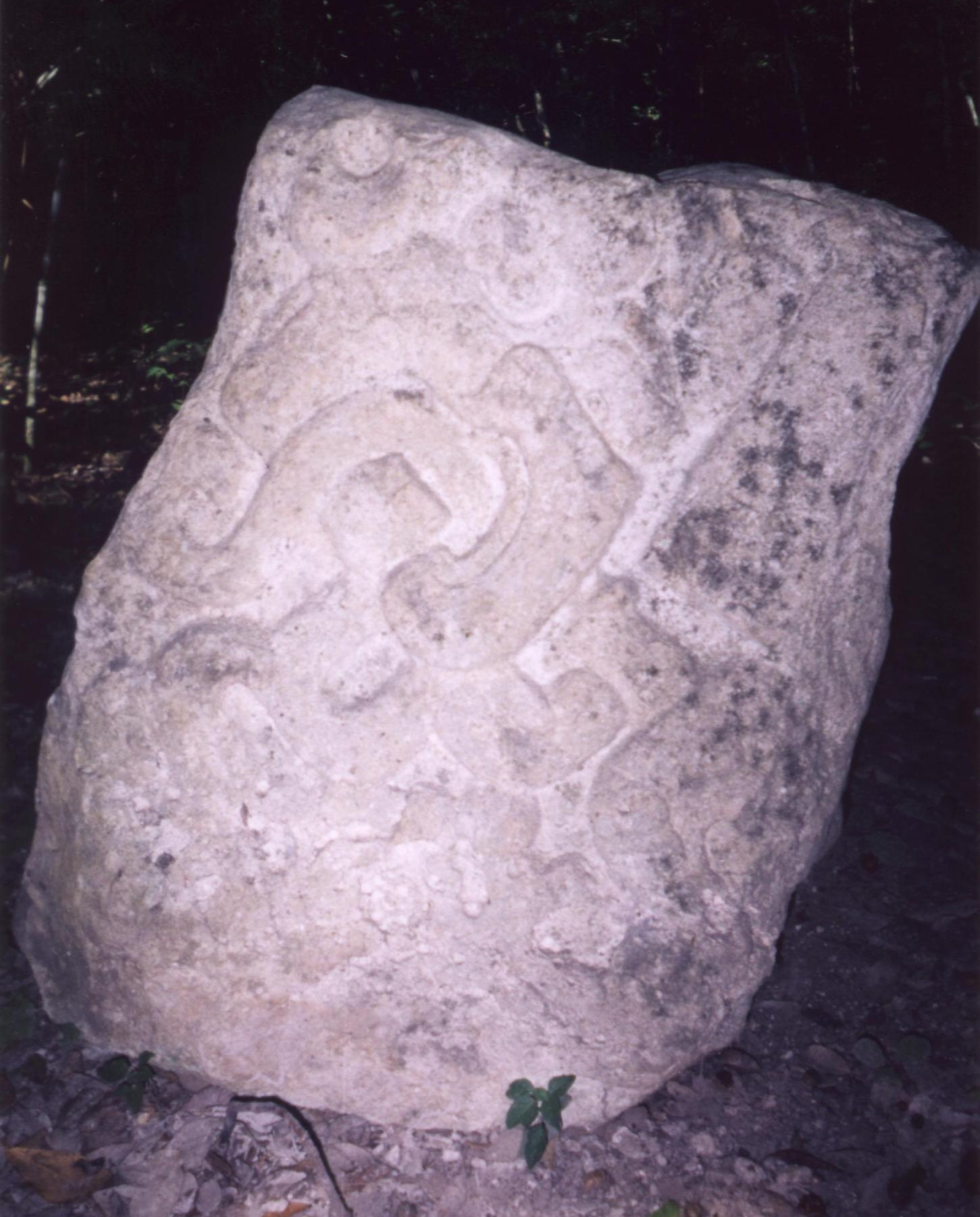 Stela 2 at the Preclassic Maya ruins of El Mirador, Peten, Guatemala. Photo taken in 2000.